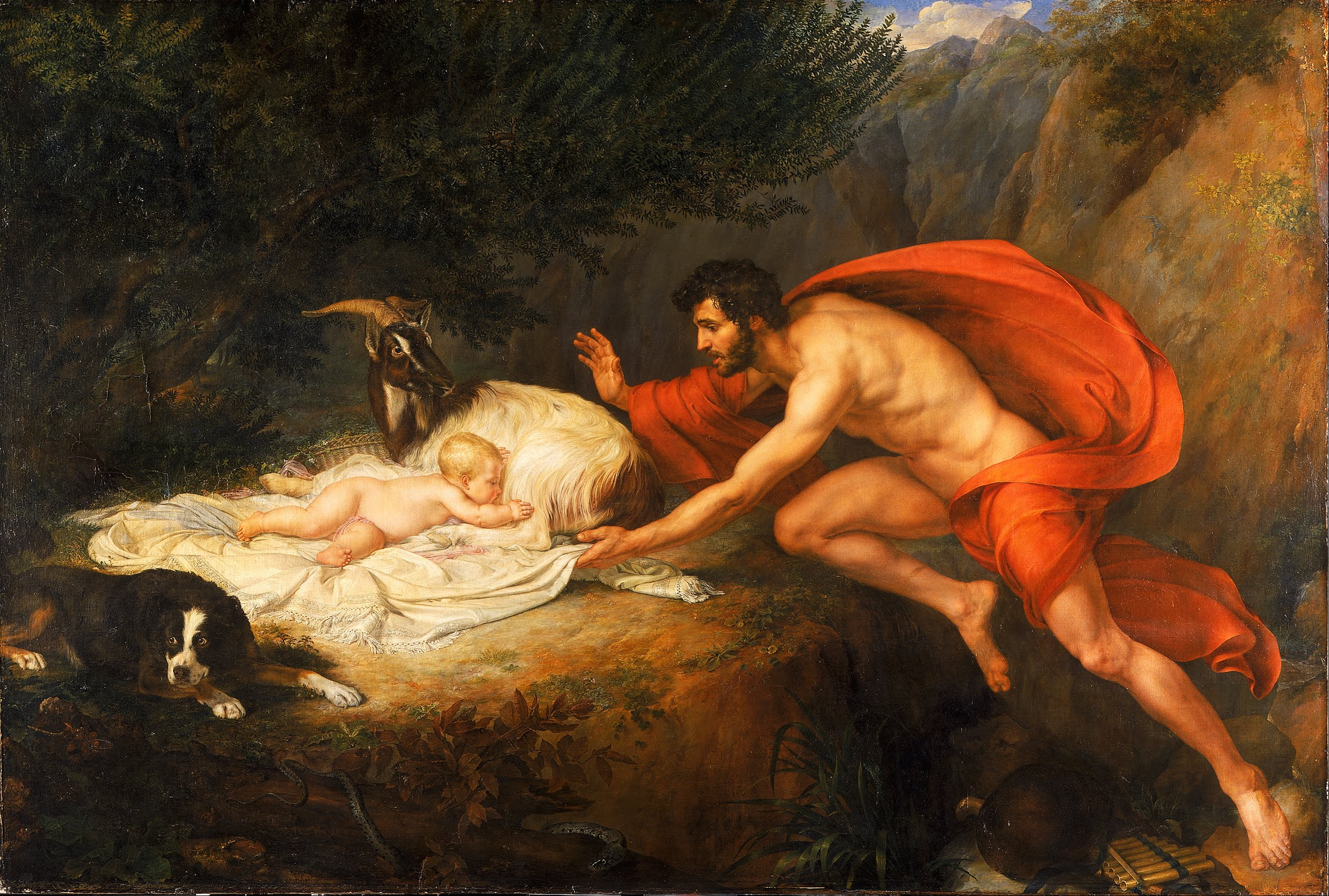 Originally attributed to Luigi Tagliani